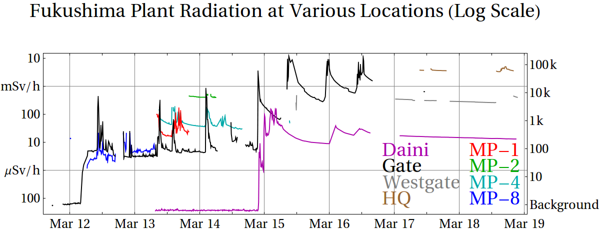 A logarithmic plot of the radiation levels at various monitoring points at the Fukushima I and Fukushima II Nuclear Power Plant during the crisis caused by the 2011 Tōhoku earthquake and tsunami. Data collected from TEPCO's webpage: [1]